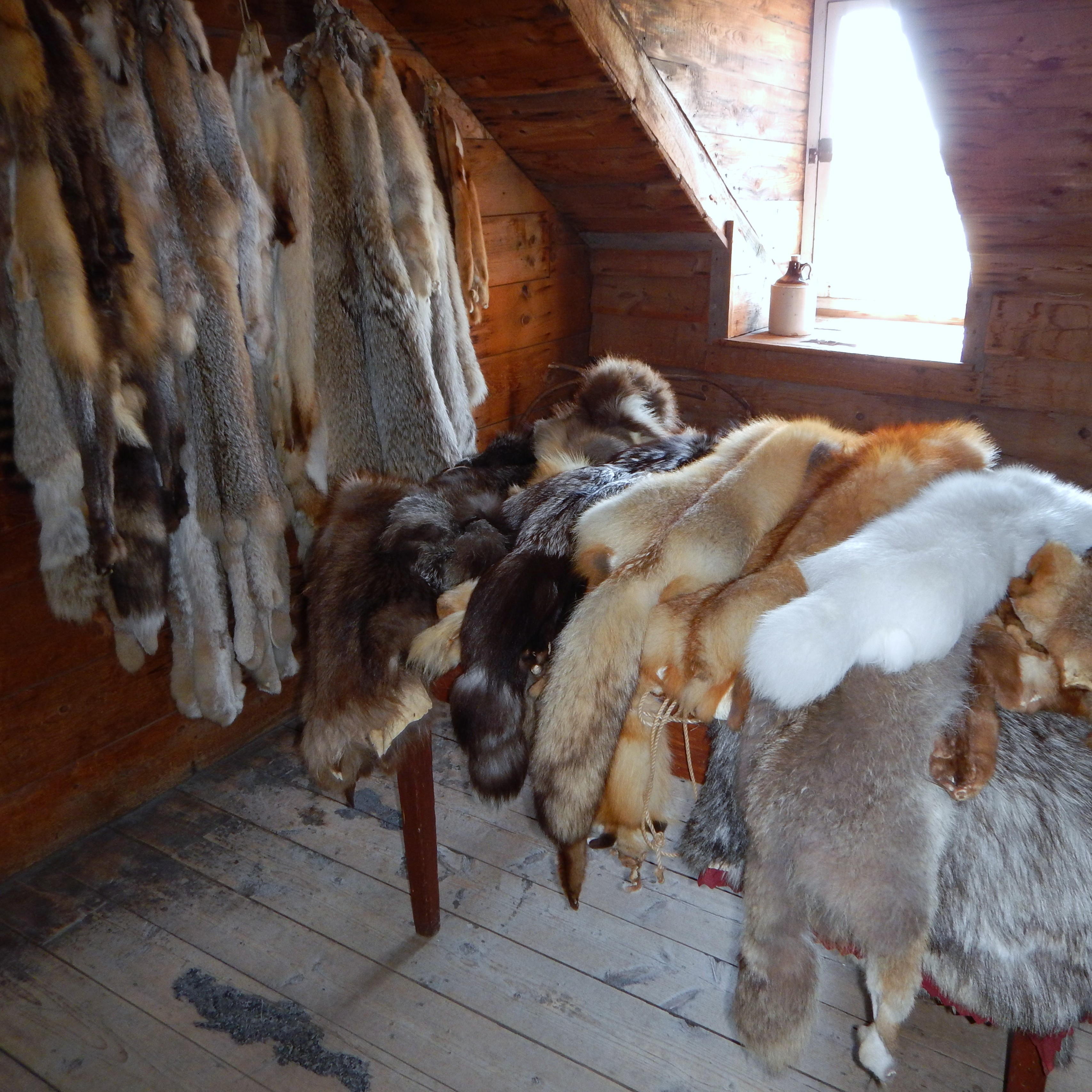 Beaver, fox, marten, wolf and other furs were stored at HBC forts before shipping them to London - 1700s and 1800s